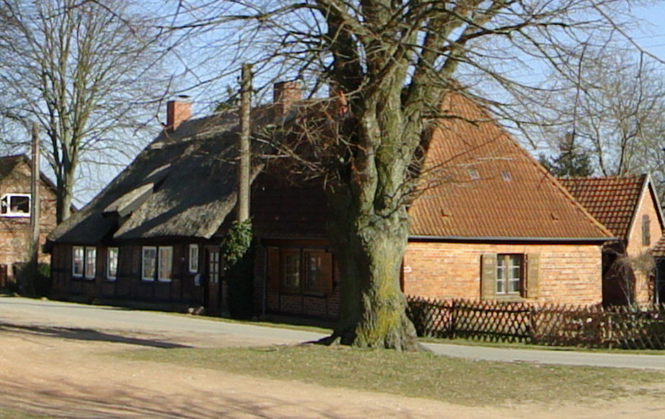 Former school building in Dobbin, district Ludwigslust-Parchim, Mecklenburg-Vorpommern, Germany